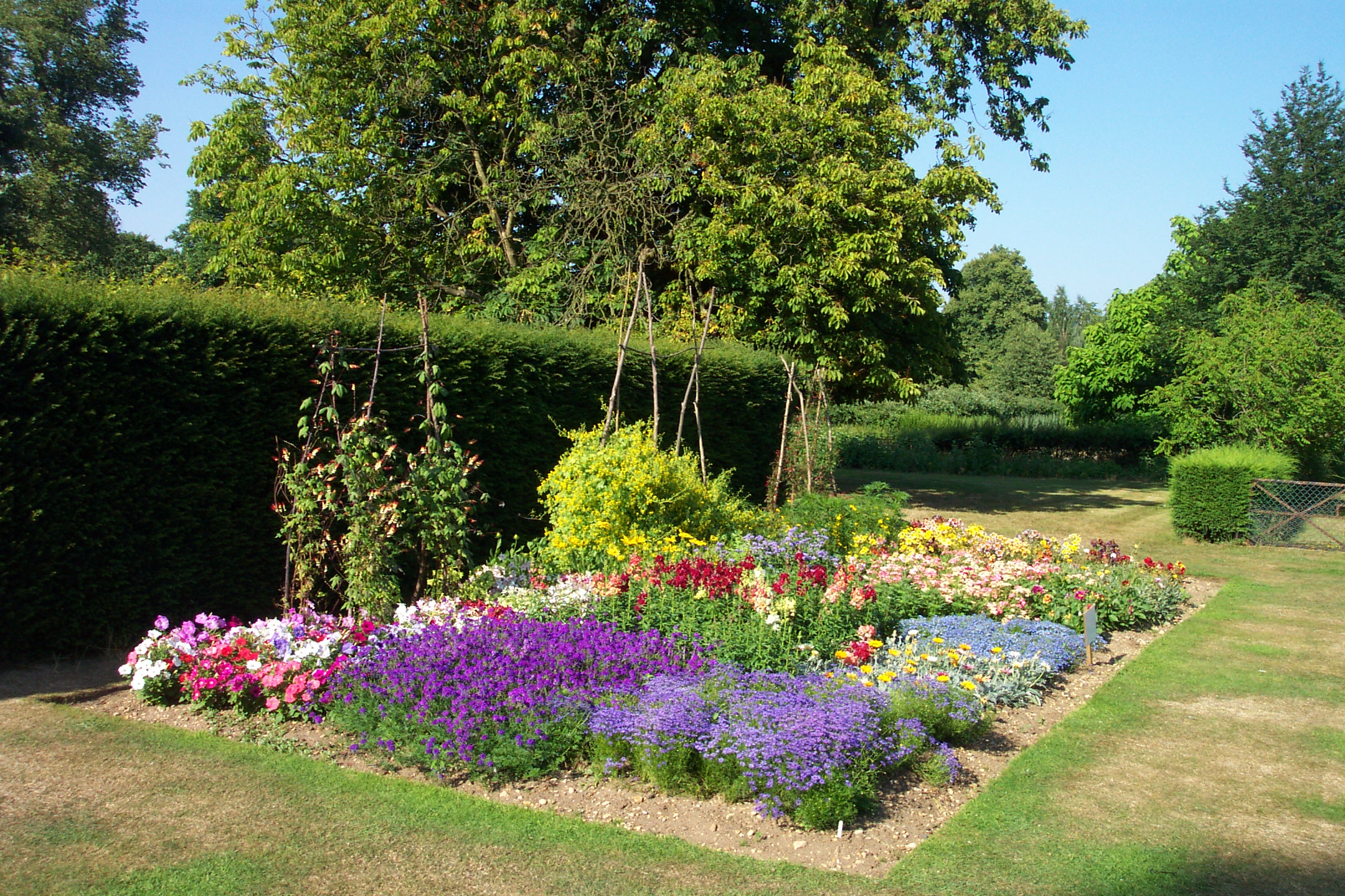 A flower bed in the Harris Garden on the University of Reading's Whikeknights Campus. Seen in July. For more information see the Wikipedia article Harris Garden.